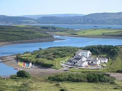 Cearbhall